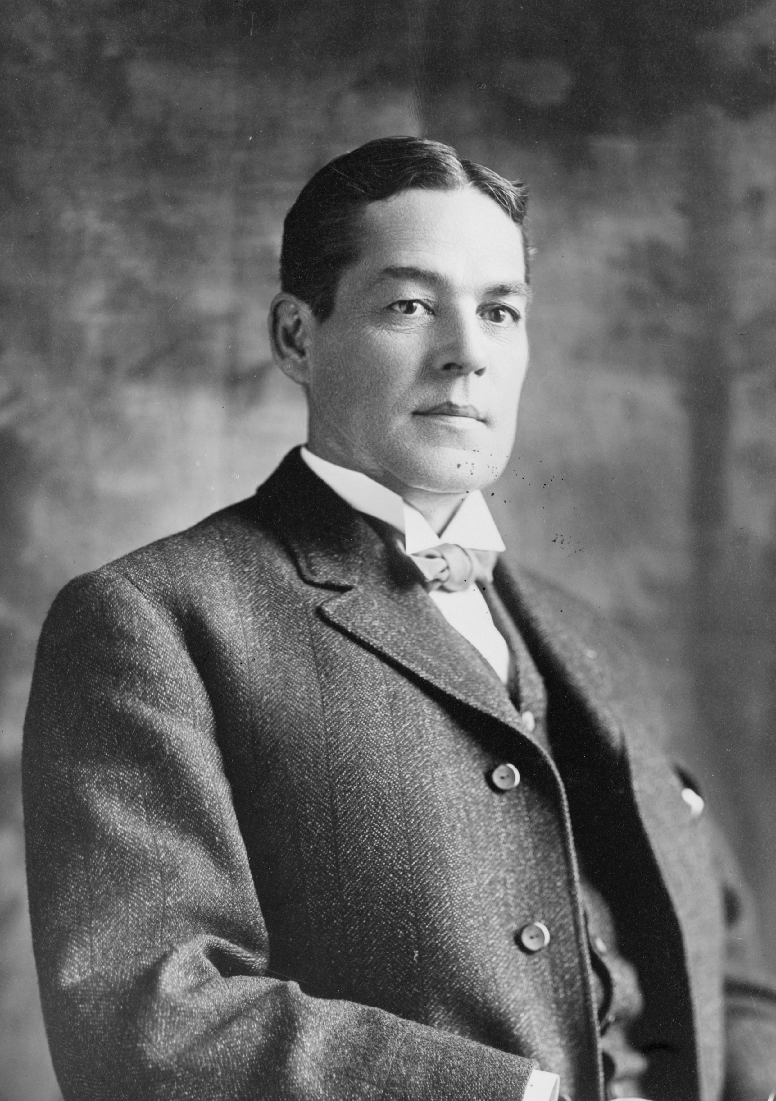 Title: Sen. Robert Latham Owen, half-length portrait, facing right Abstract/medium: 1 photographic print.